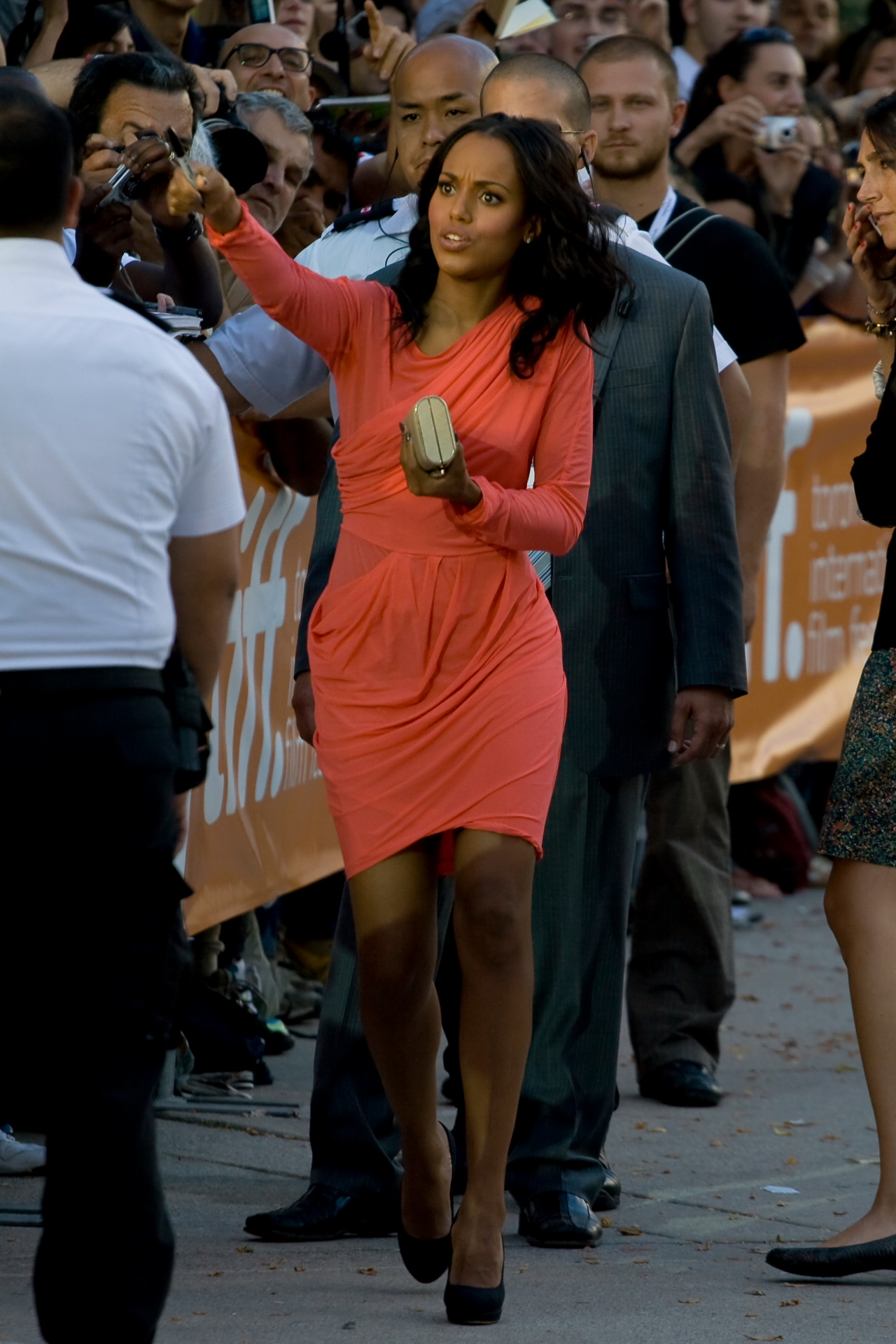 Kerry Washington at the premiere of Mother and Child, directed by Rodrigo García, during the Toronto International Film Festival, 2009.